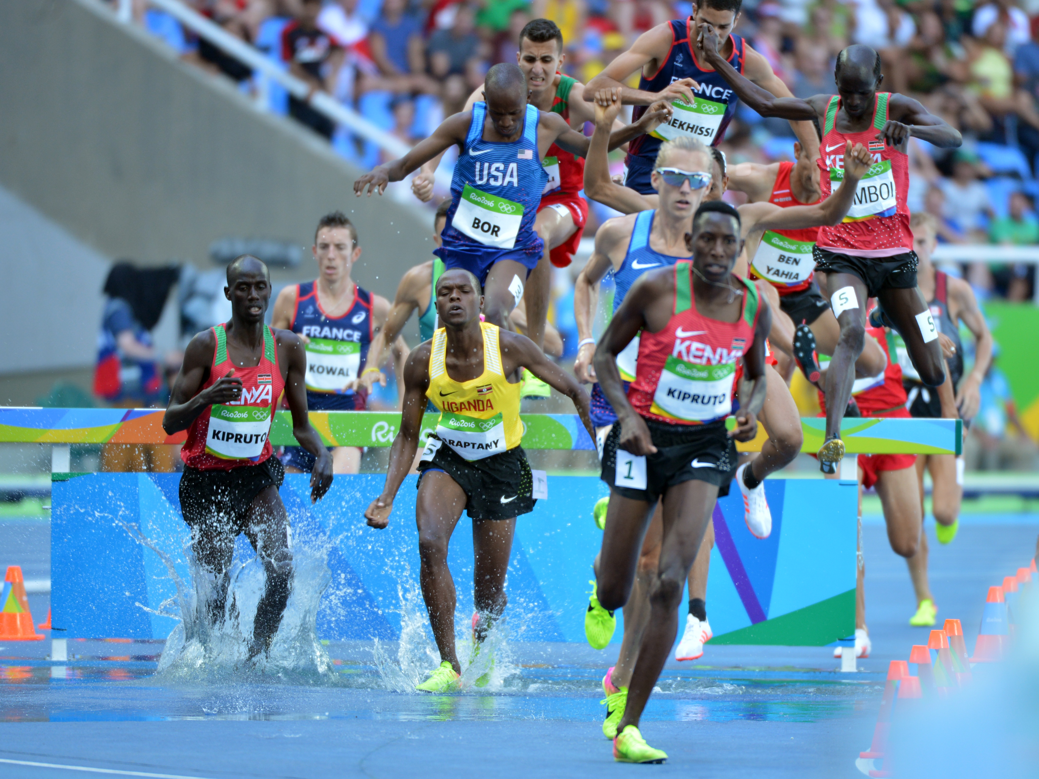 Sgt. Hillary Bor, a Soldier in the U.S. Army World Class Athlete Program stationed at Fort Carson, Colo., runs to an eighth-place finish in the men's 3,000-meter steeplechase with a personal-best time of 8 minutes, 22.74 seconds on Aug. 17 at the 2016 Rio Olympic Games in Rio de Janeiro. Brimin Kiprop Kipruto of Kenya won the race in an Olympic record time of 8:03.28, followed by silver medalist Evan Jager (8:04.28) of Team USA and bronze medalist Ezekiel Kemboi (8:08.47) of Kenya. U.S. Army photo by Tim Hipps, IMCOM Public Affairs #SoldierOlympians #ArmyOlympians #ArmyTeam #GoArmy #TeamUSA #ArmyStrong #RoadToRio